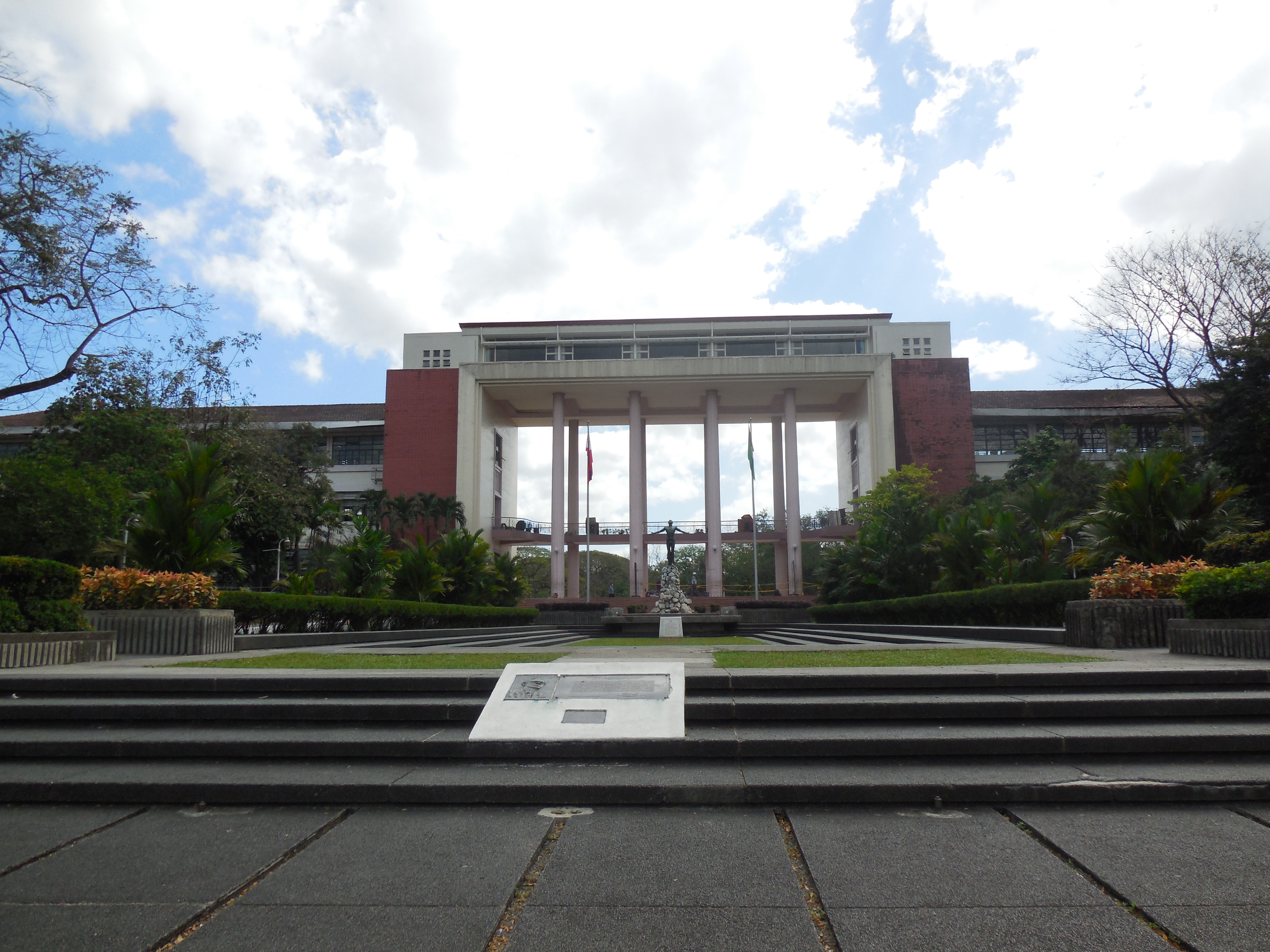 The University of the Philippines Administration Building with the Oblation statue.